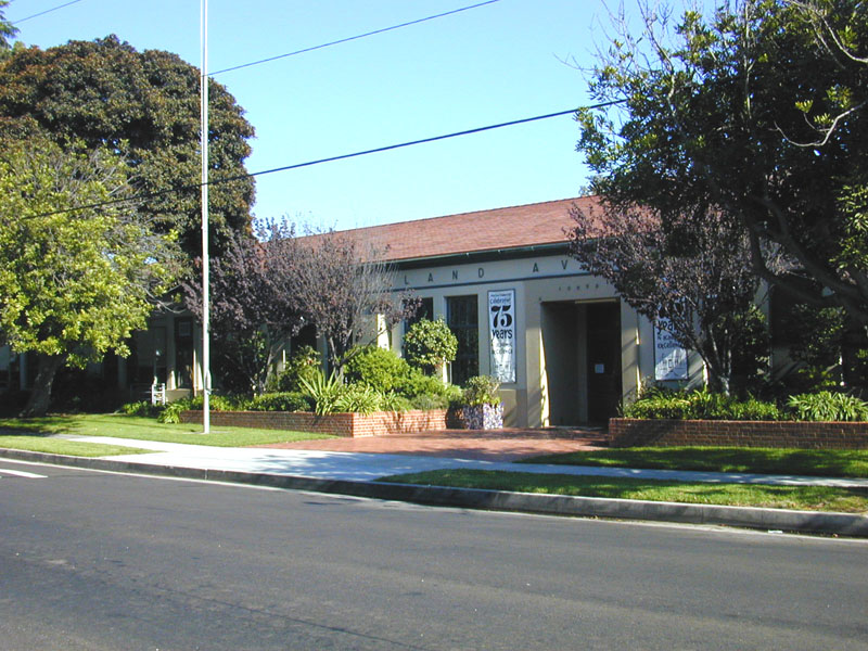 Overland School in Los Angeles CA - 10650 Ashby Ave, Los Angeles, CA 90064